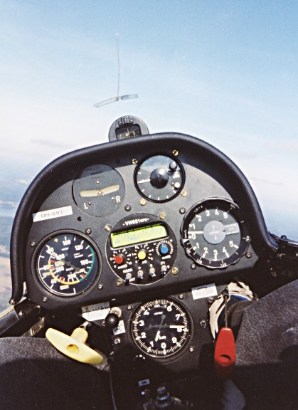 Cockpit of an LS-4 sailplane. On the left the airspeed indicator, speed just now a little below 80 km/h. On the bottom the altimeter, altitude currently around 780 metres. On the right the mechanical variometer, rate-of-climb ca. 0.3 m/s. On the center the VW921 final glide computer, which also controls the electric variometer on the top right. On the top left the yaw indicator. However, the string taped on the canopy indicates the yaw more accurately. On top of the instruments the compass. The yellow handle is to release the tow rope. The red handle is for emergency canopy release.